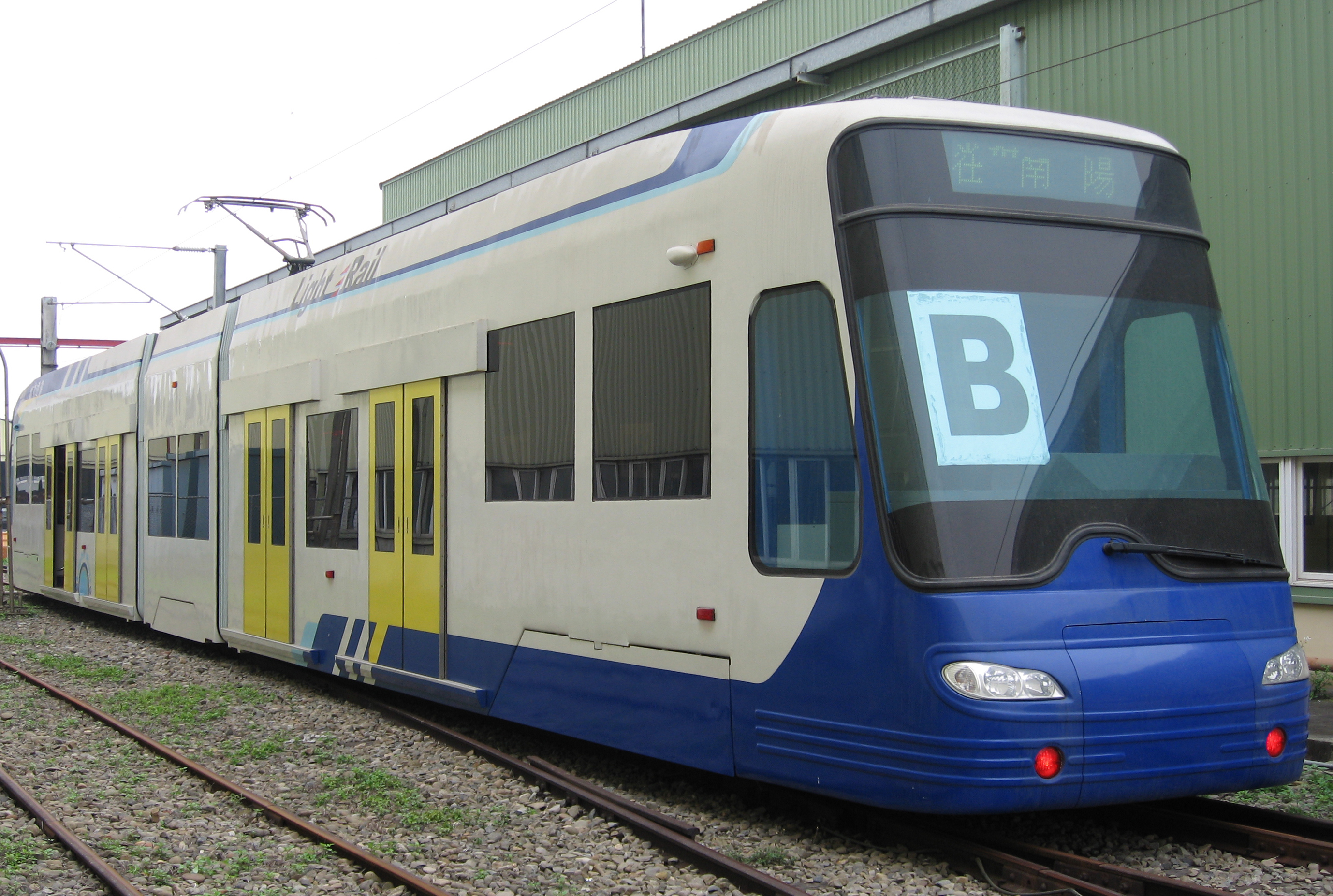 Taiwanese LRV2 last run, the LRV was jointly developed by NCSIST and TRSC.